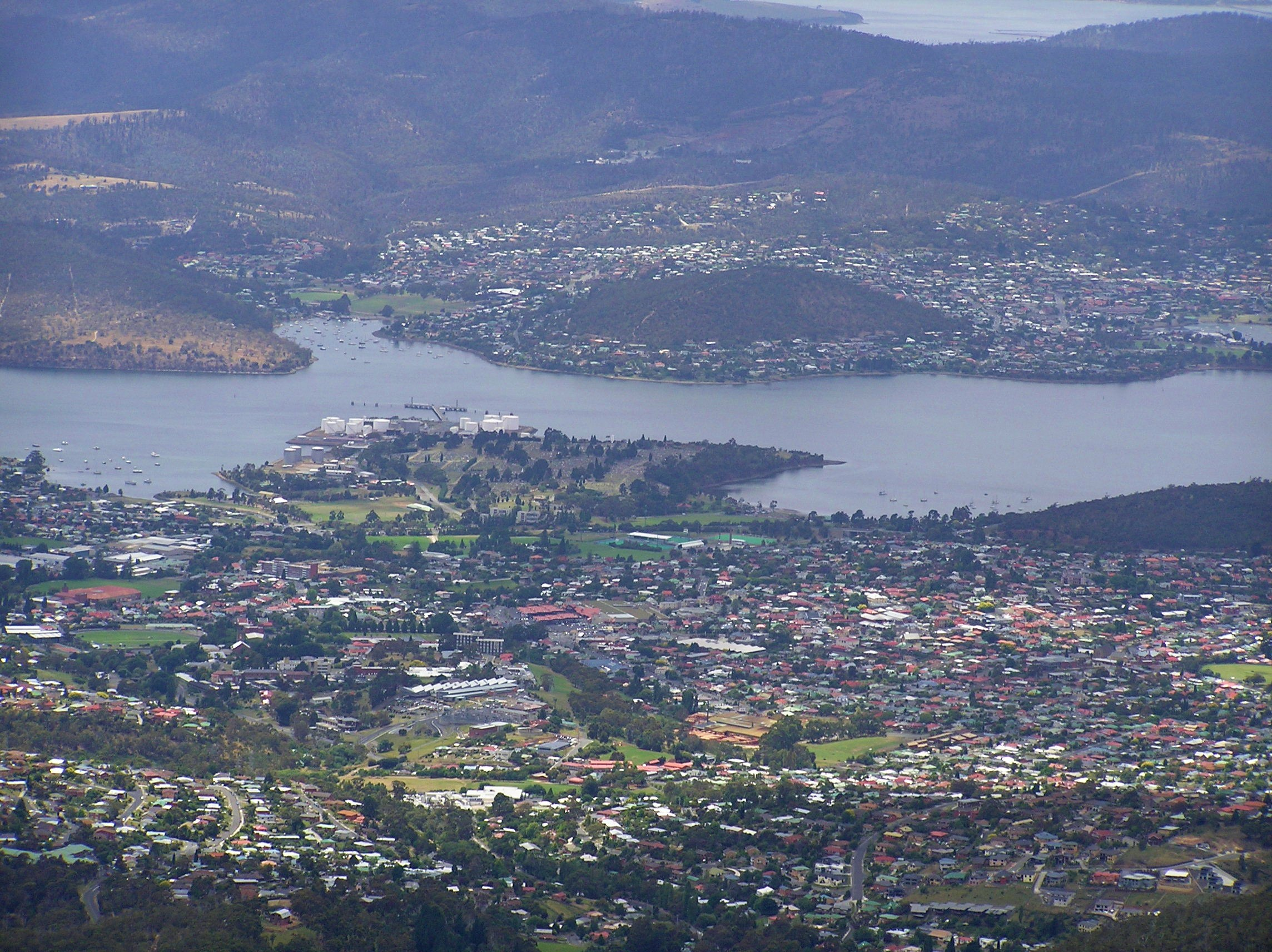 Newtown suburb of Hobart Tasmania viewd from Lost World near Mount Wellington